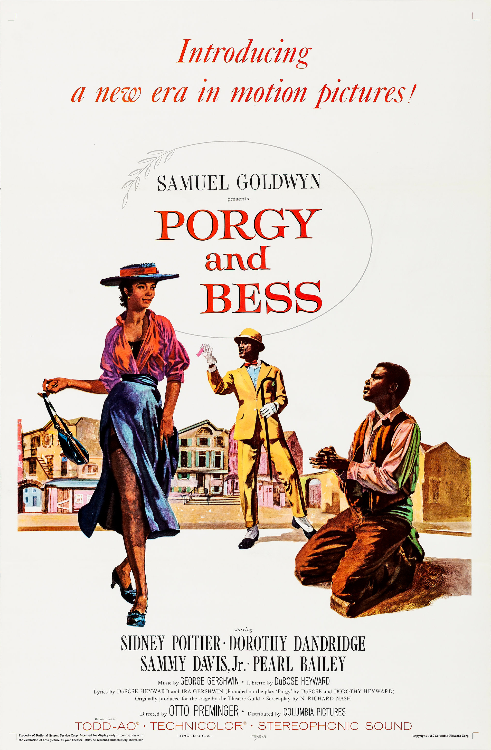 Theatrical release poster for the 1959 musical film Porgy and Bess, based on the 1935 opera of the same name.